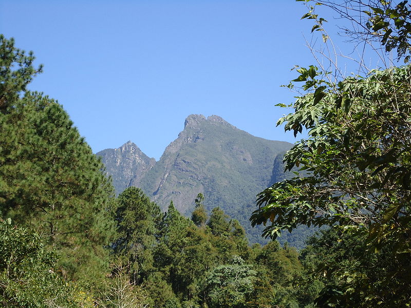 Atlantic forest habitat, in the Serrinha do Alambari - southeast Brazil.